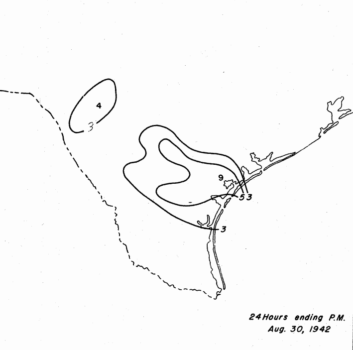 Rainfall totals from Hurricane Two of the 1942 Atlantic hurricane season